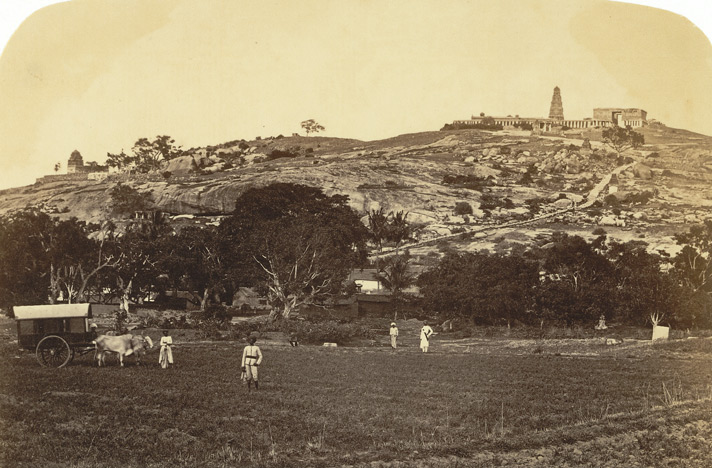 Photographer: Unknown Medium: Photographic print Date: 1860 A photograph of a view of Hosur, near Salem from the 'Vibart Collection of Views in South India' taken by an unknown photographer about 1860. King Rama Natha of the Hoysala Dynasty founded the town of Hosur in the year 1290; this Dynasty came to an end after the death of Pallavaraya III. During the period of British rule in India, the Salem collector Walton Illiat Lockardt made Hosur the head quarters for the Salem district. This view shows temples on the hillside.